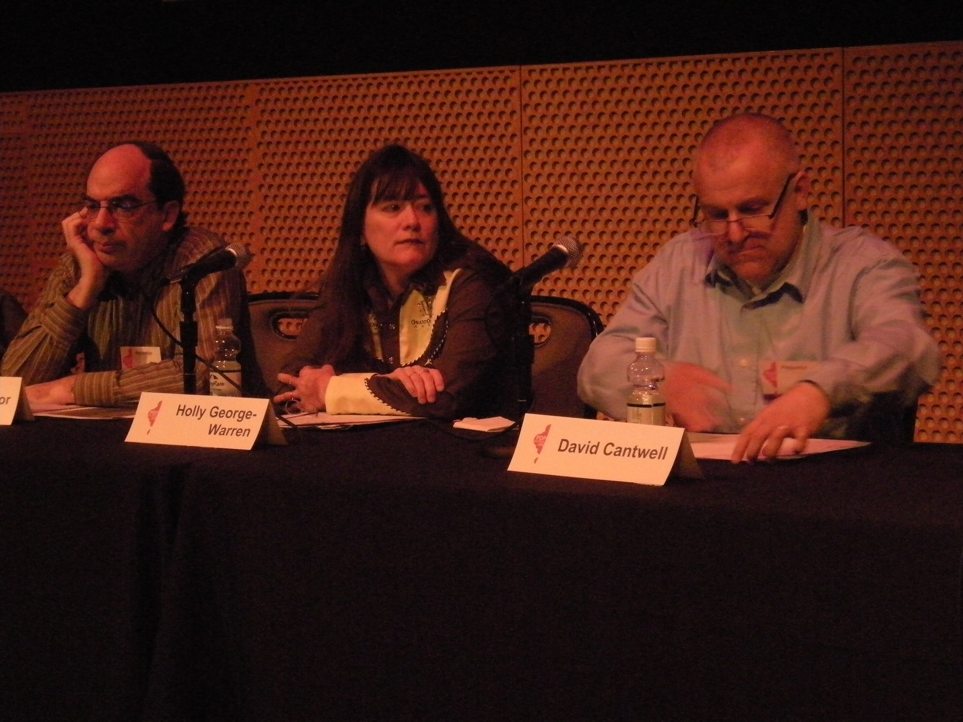 Barry Mazor (widely published music critic; senior editor at No Depression) & Holly George-Warren (author of several books about popular music), and David Cantwell (also a music writer and a senior editor at No Depression) on the panel "Making Roots Music Pop Heroes", 2008 Pop Conference, Experience Music Project, Seattle, Washington.